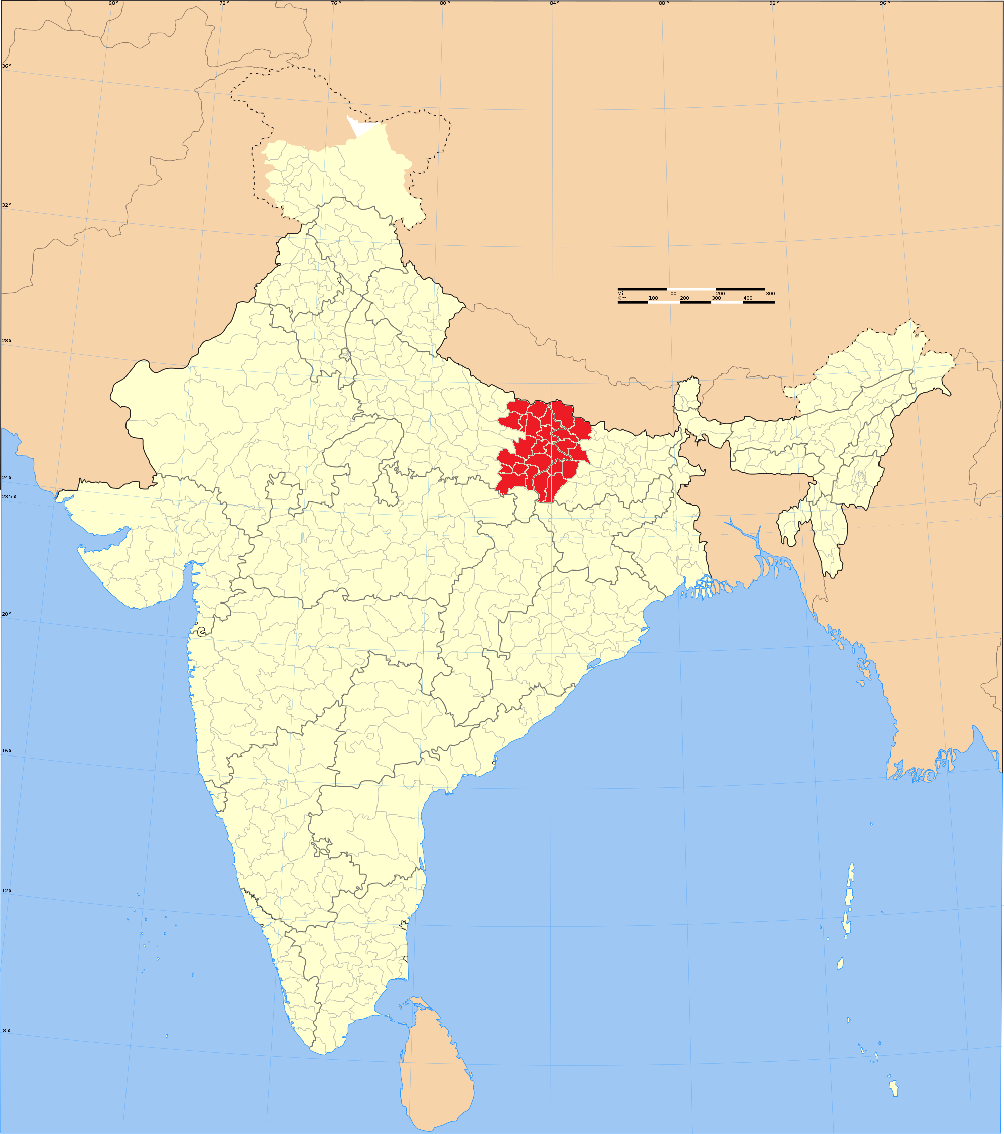 Bhojpuri Speaking Region in India